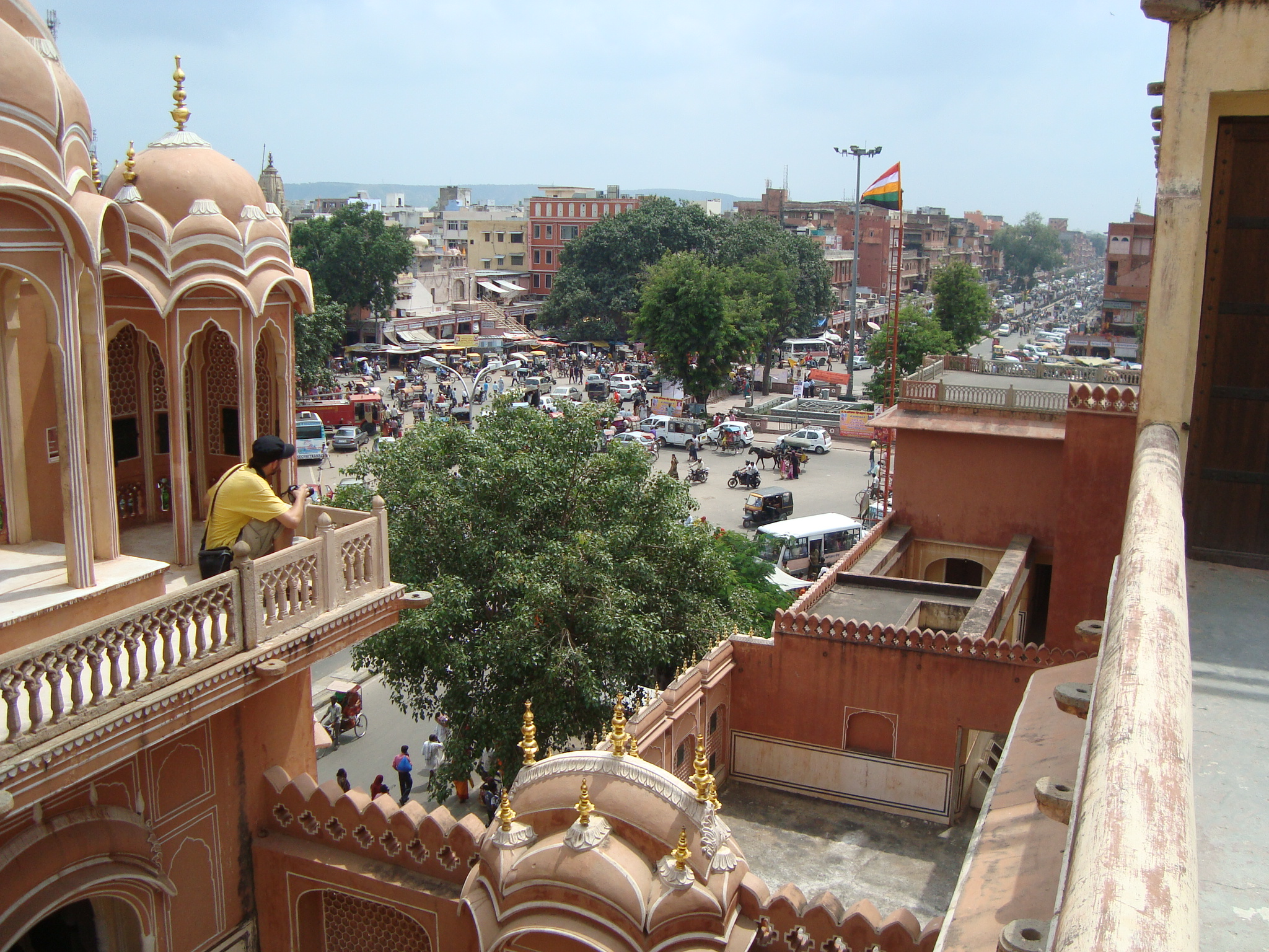 View of Jaipur City from Hawa Mahal